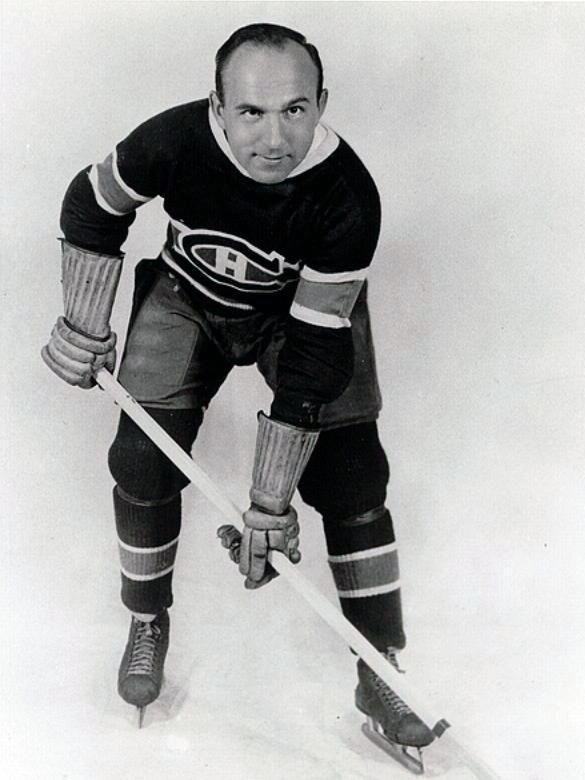 Howie Morenz, centre of the Montreal Canadiens of the NHL from 1923 to 1934 and again from 1936 to 1937.